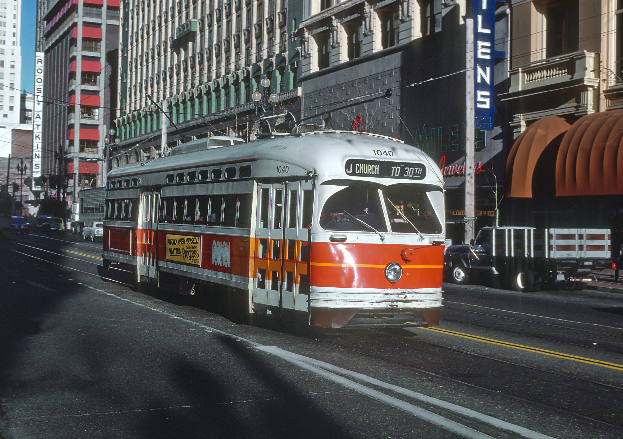 A Roger Puta Photograph This file comes from the Roger Puta collection, which passed to Mel Finzer. They were scanned and posted by Marty Bernard, are in the Public Domain. Attribution to "Roger Puta" is not required for a PD image, but should be done as a matter of courtesy to a major Commons contributor. Mel Finzer, the heirs of this work's copyright holder (usually the creator) have released it into the public domain. This applies worldwide. In some countries this may not be legally possible; if so: The heirs of the creator grant anyone the right to use this work for any purpose, without any conditions, unless such conditions are required by law. See This work is free and may be used by anyone for any purpose. If you wish to use this content, you do not need to request permission as long as you follow any licensing requirements mentioned on this page.